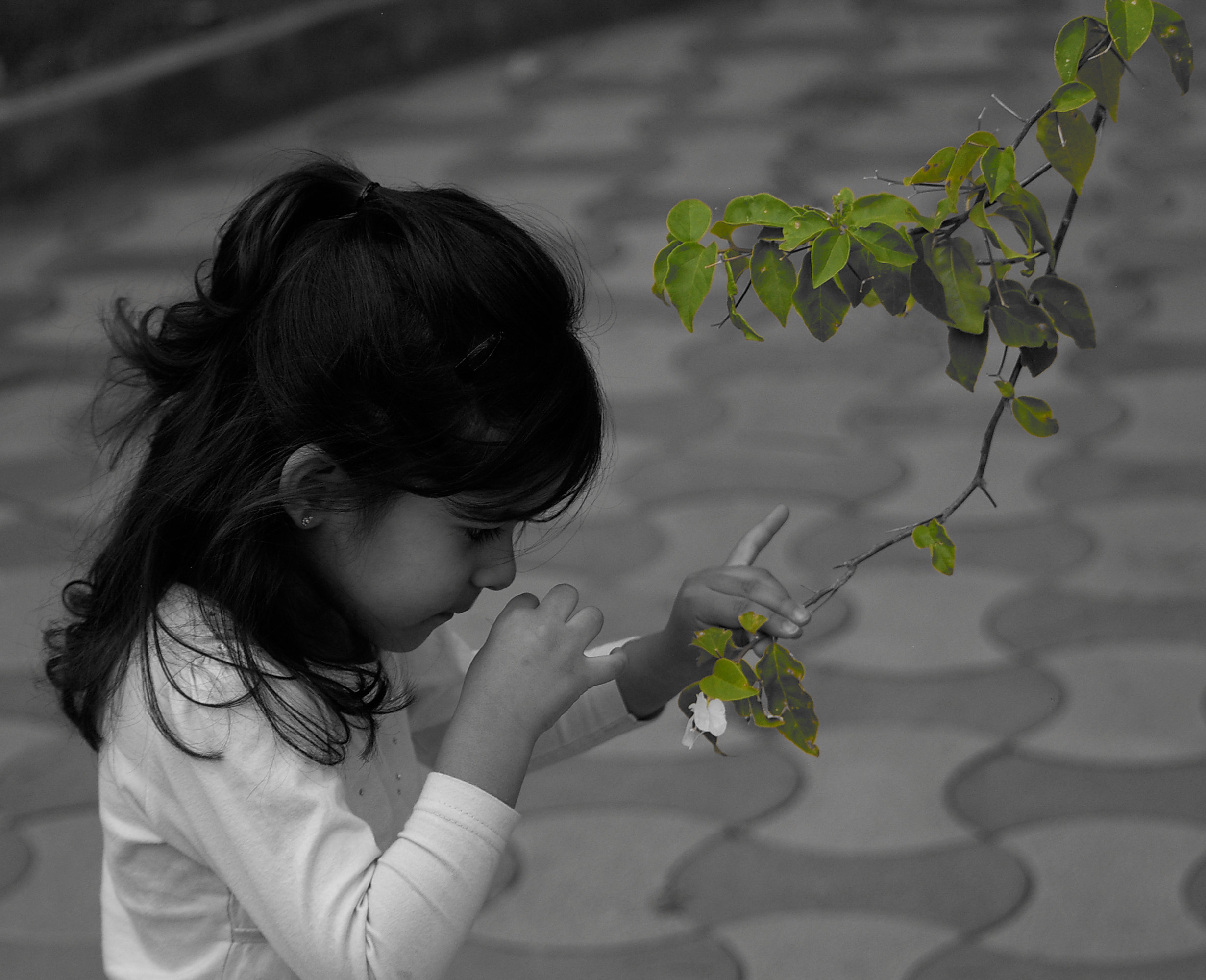 Children of India Curious girl